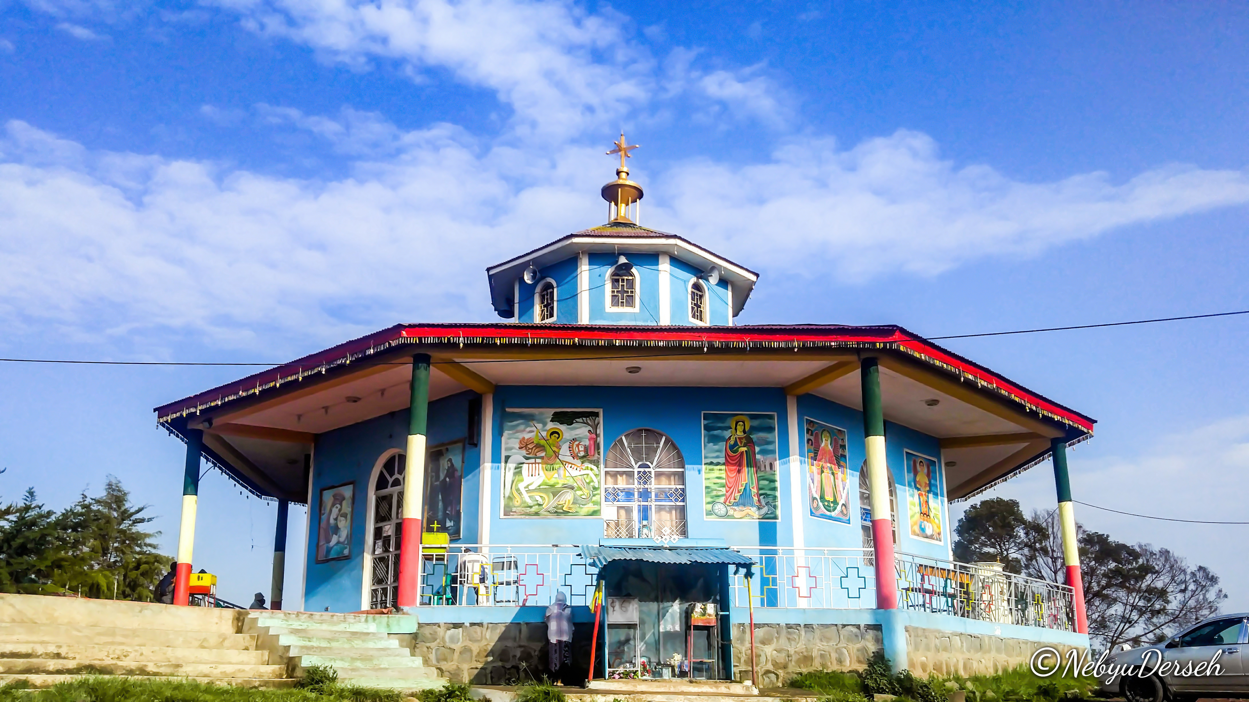 This is an image with the theme "Africa on the Move or Transport" from: Ethiopia